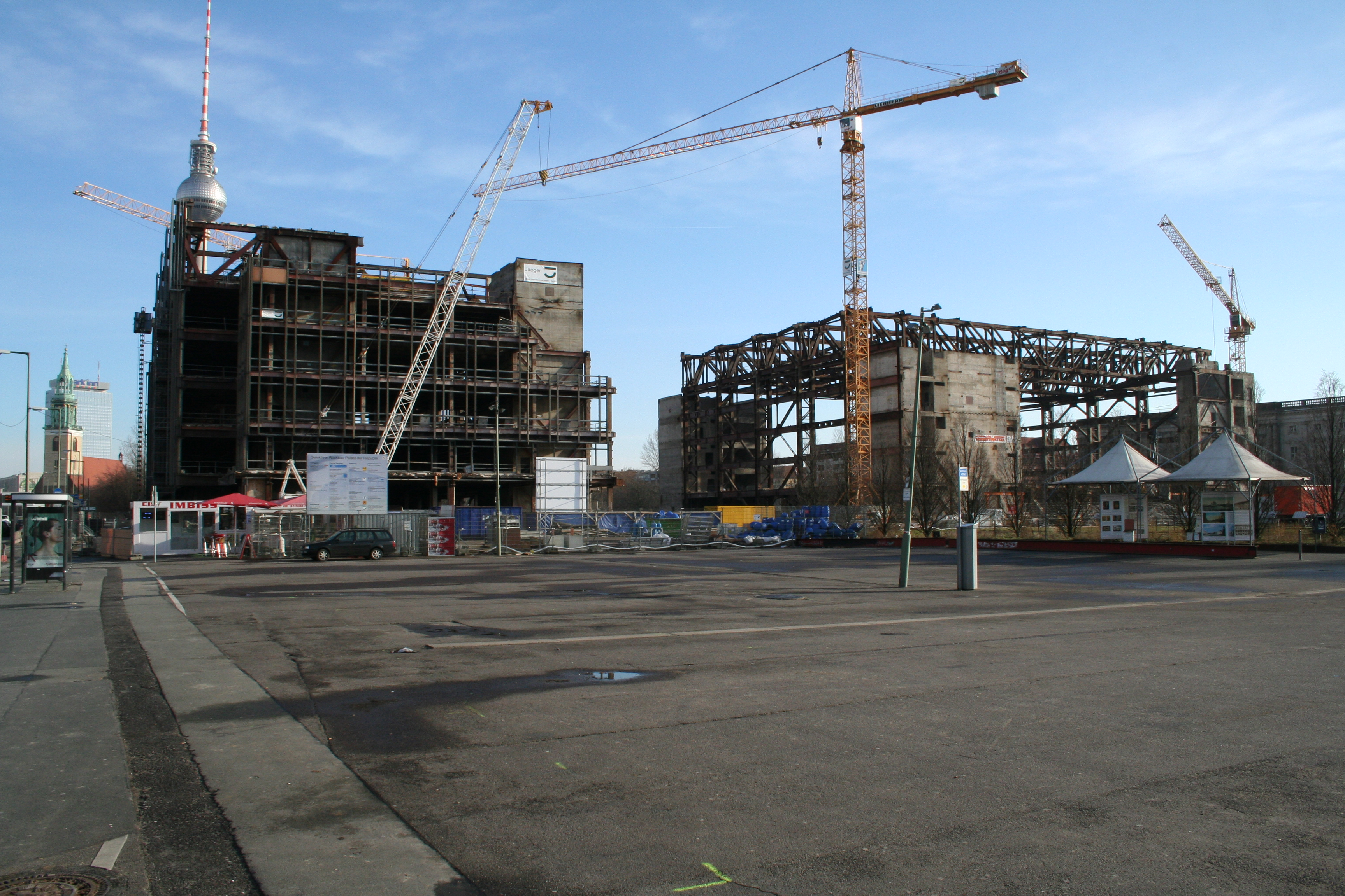 Demolition of Palast der Republik